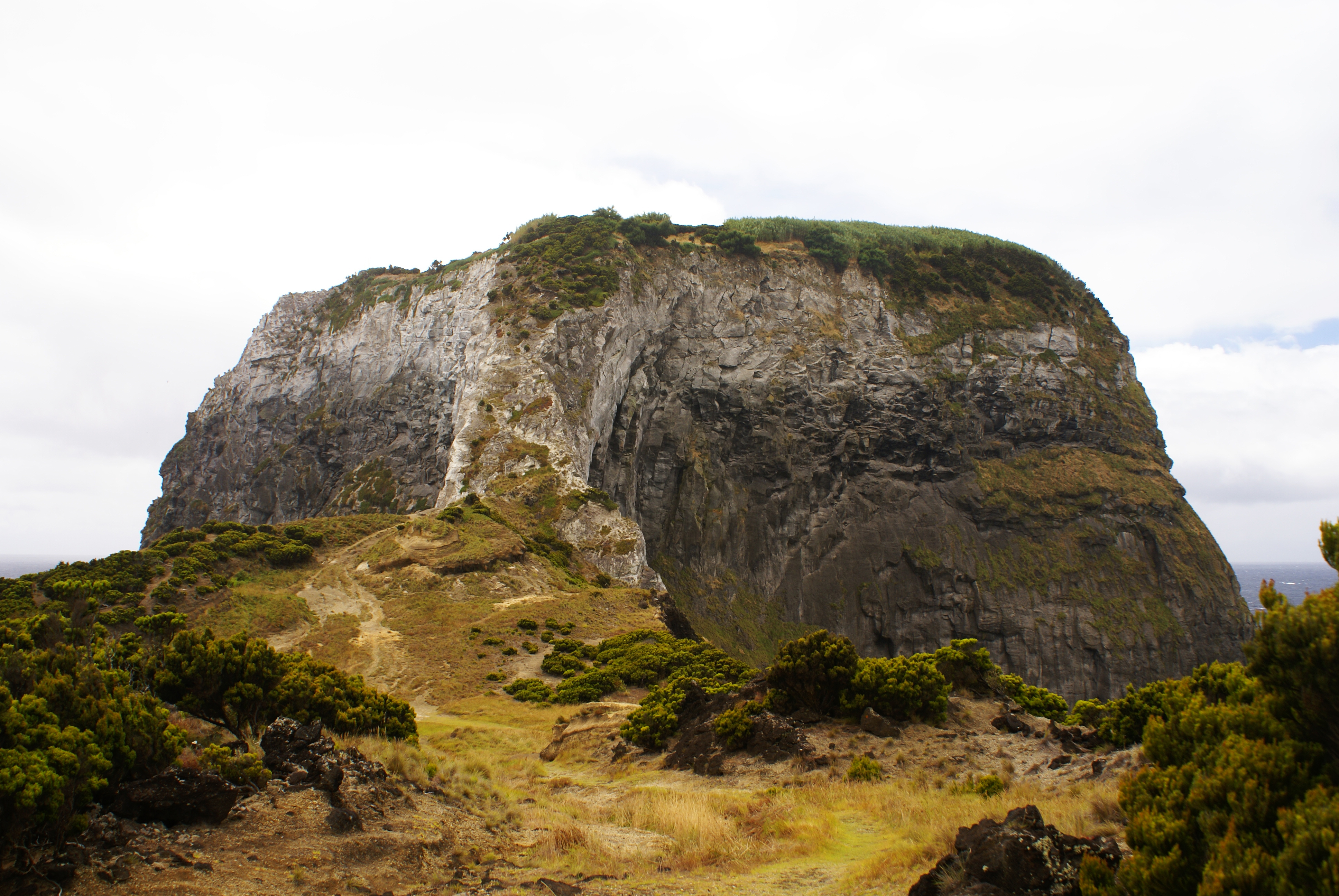 Morro de Castelo Branco, aspectos 1, Castelo Branco, concelho da Horta, ilha do Faial, Açores, Portugal